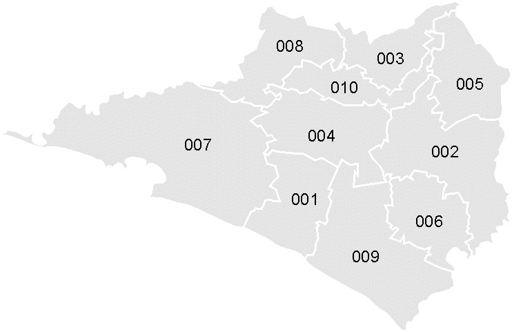 Map of the Municipalties of the State of Colima, México.